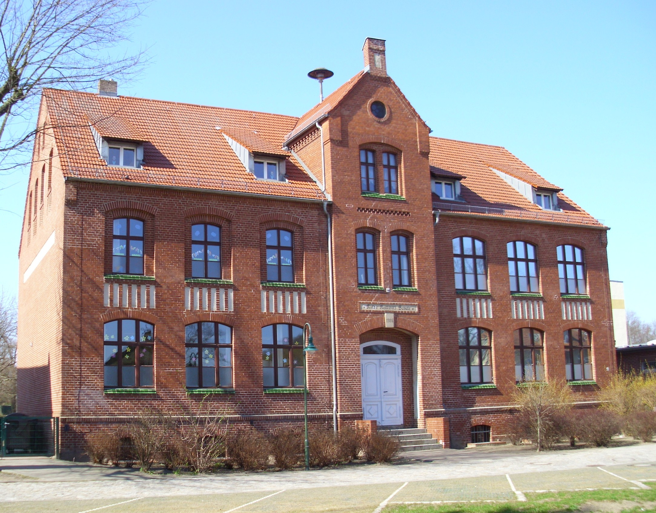 Käthe Kollwitz School of Mühlenbeck from the year 1906